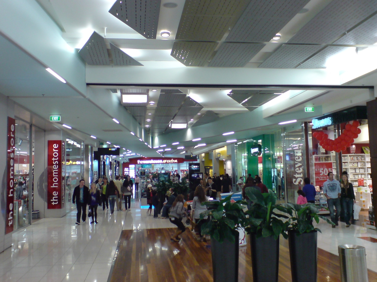 The interior of the southern mall of the Sylvia Park shopping centre in Auckland, New Zealand. Coordinates are only very approximate.